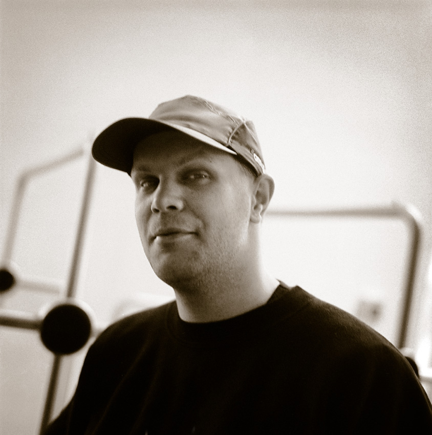 German DJ Marc Hype (born Marc Gärtner) in Berlin, 2001